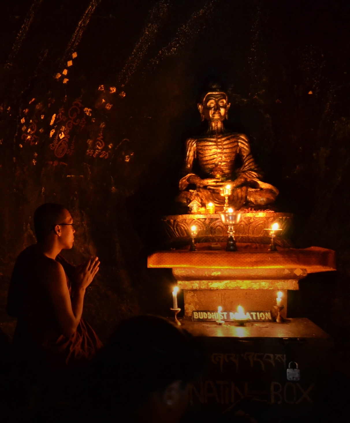 Buddha statue in Donkasiri (A mountain, Thais call Donkasiri, where Buddha spent his 6 years of physical torments during his quest to understand dhamma before enlightenment) Gaya, India, India.